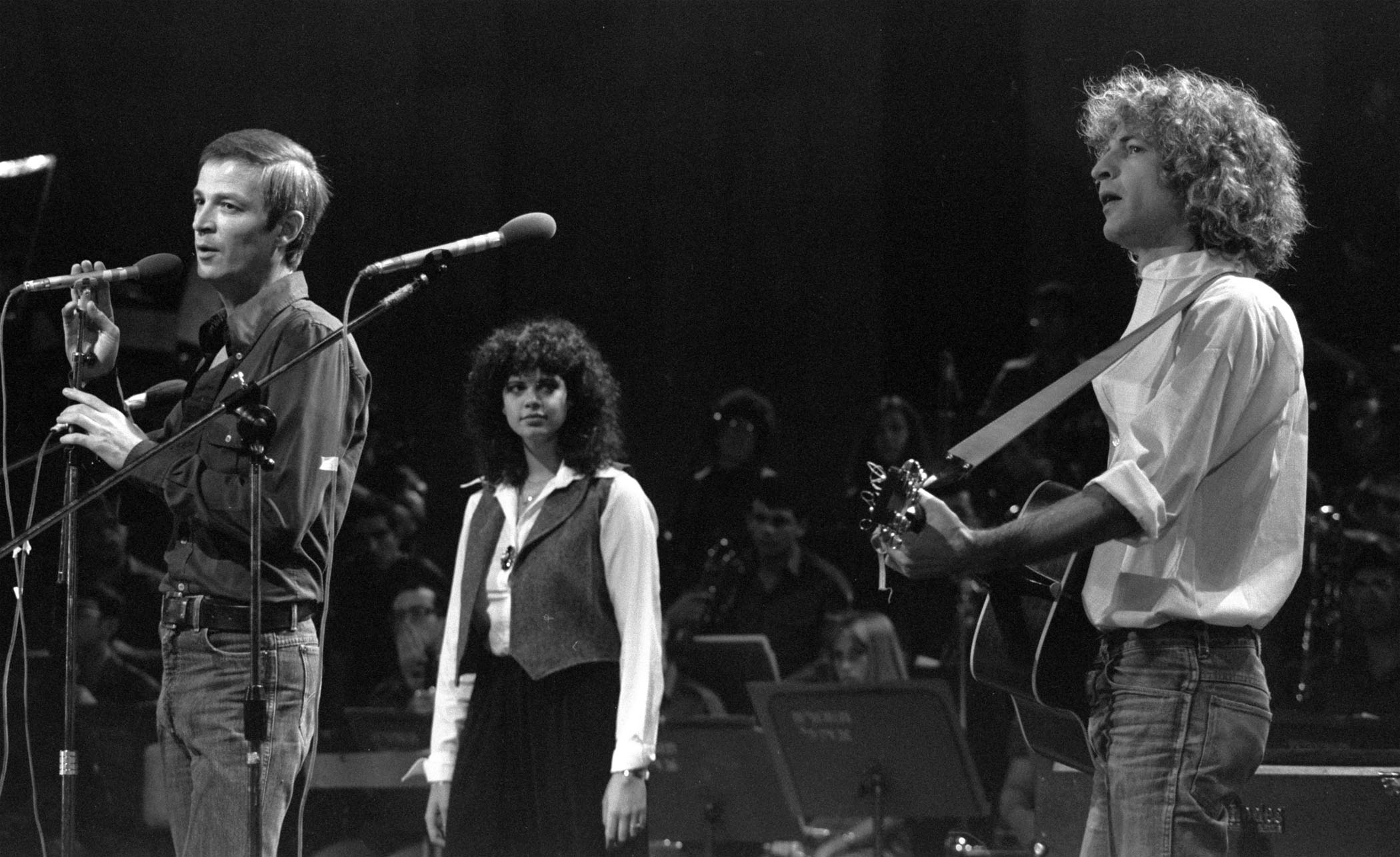 Shalom Chanoch and Arik Einstein. שלמה חנוך ואריק איינשטיין Photo: Yaakov Saar (1951–) Alternative names SA'AR YA'ACOV; Jacob Saar; Saʻar, YaʻaḳovDescriptionIsraeli photographerDate of birth 1951 Authority control : Q28751896 VIAF: 298161188 NLI: 001394176 creator QS:P170,Q28751896 , 11/04/1979